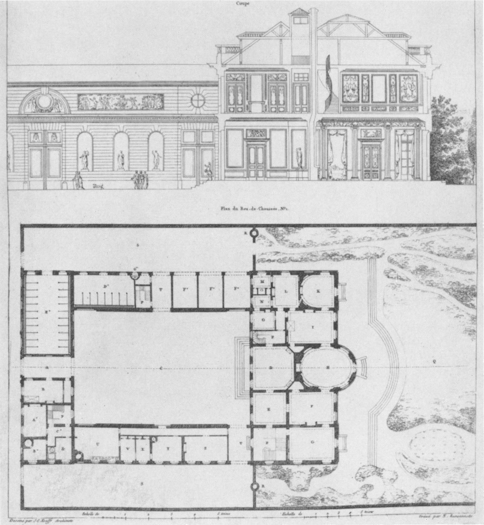 Elevation and floor plan of the Hôtel de Bourbon-Condé. The plan of the ground floor of the corps de logis, when enlarged to full resolution, shows: "D", entry hall; "E" and "F", reception rooms; "G", dining room; "H", main salon; "I", main bedroom; "P", staircases. This plan does not faithfully represent the final design of the building in all details. Other plans, e.g., those at the Bibliothèque nationale de France (see ground-level and superior floor plans and elevations), differ in details. For instance, the steps leading into the entry hall, which in this plan are depicted as rectangular, but are curved in the actual building (see satellite view at Google Maps), are shown as curved in the ground-floor plan at the Bibliothèque nationale. Also, the bas-relief sculptures by Clodion, which were to be added to the walls of the interior courtyard, were "fancifully interpreted" in this elevation [Parker (1967), p. 231].